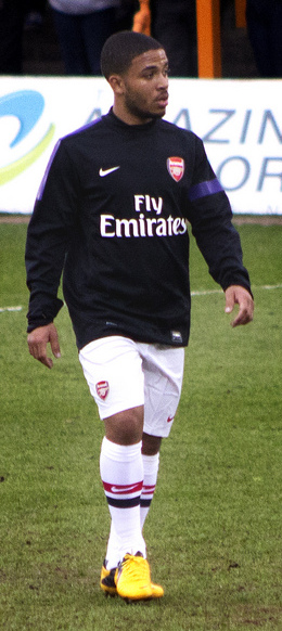 Jernade Meade of Of Arsenal Football Club